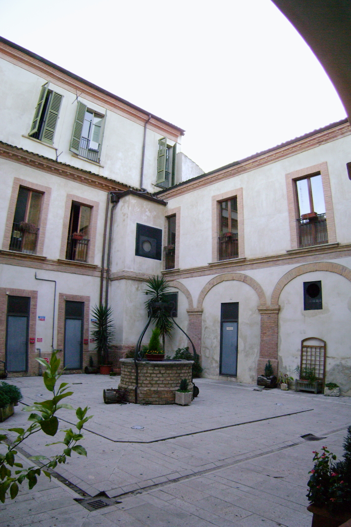 The cloister of the monastery of St. Francis, in Lanciano, province of Chieti, Abruzzo